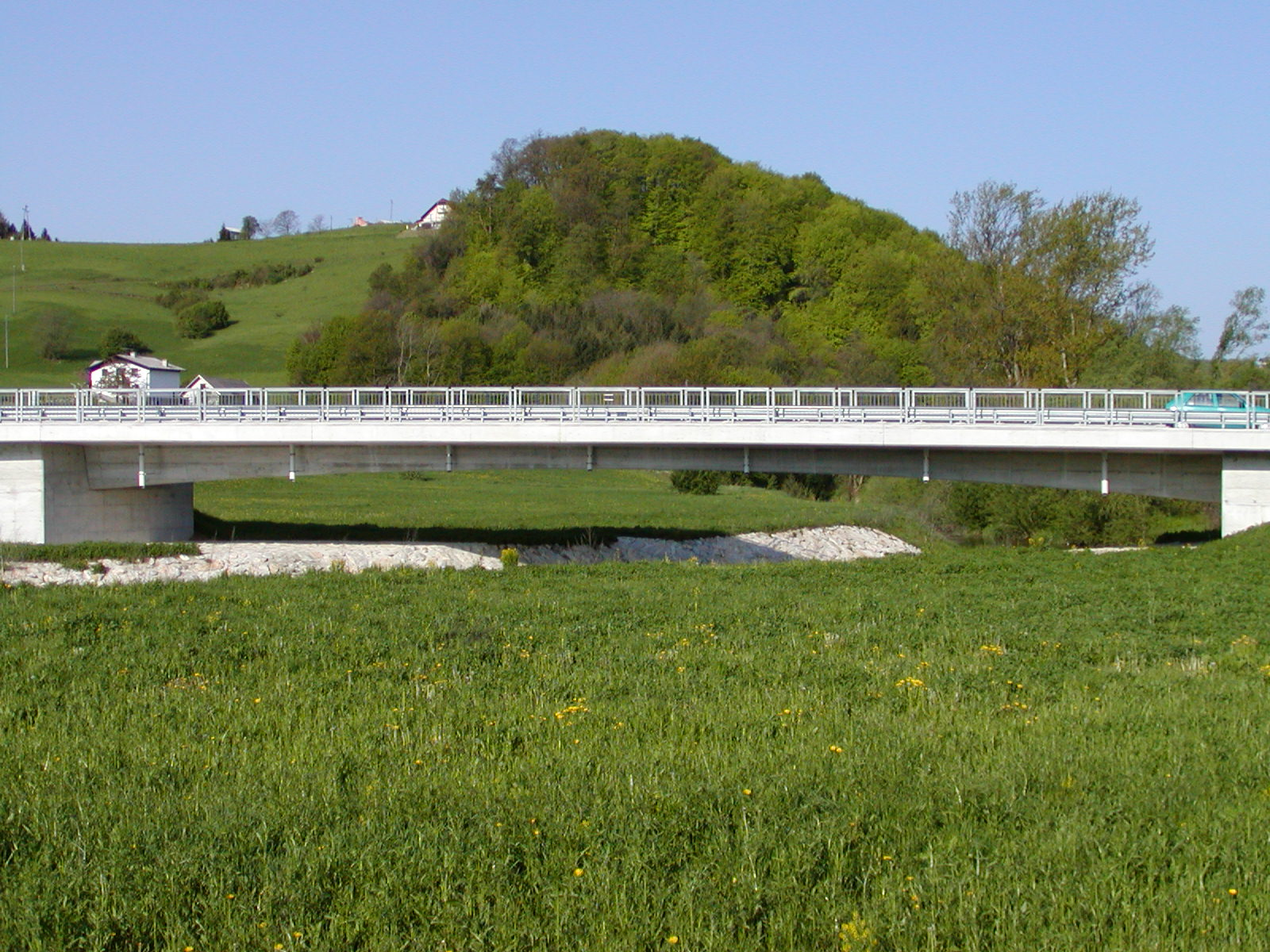 Bridge on Dravinja River at the Penoje village